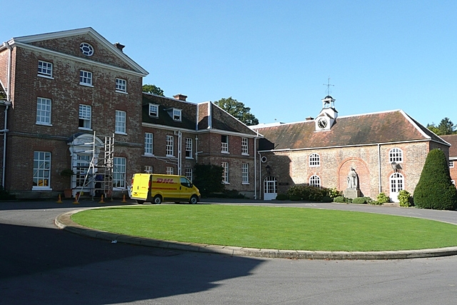 The Oratory School, main building The Catholic Boys' School moved here in 1942 from Caversham Park Reading. This is a Georgian grade 2* listed building, but I have not yet found out who the previous occupiers were.